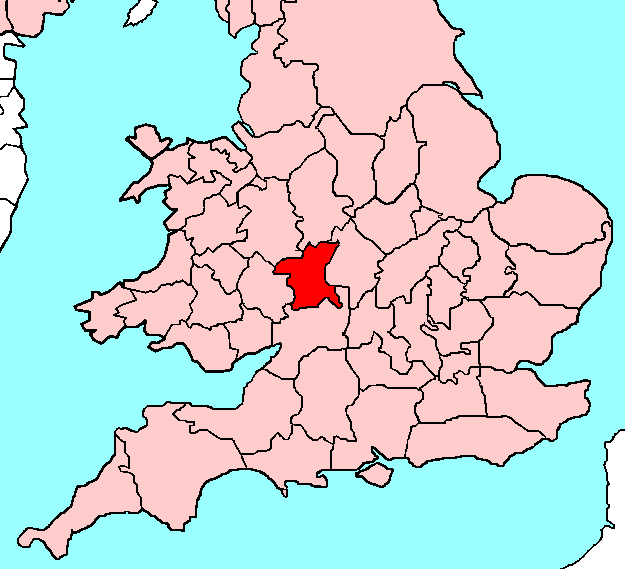 Worcestershire